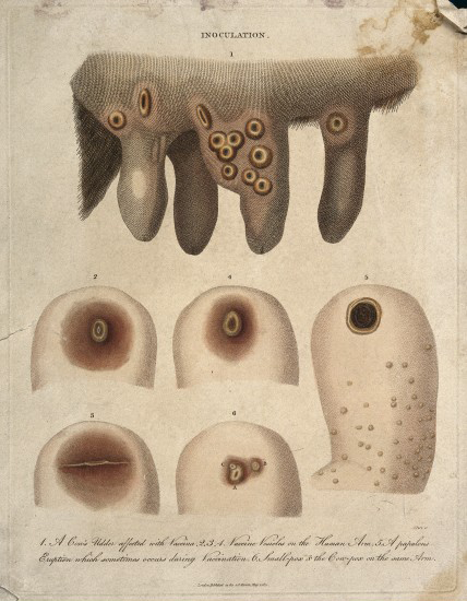 A cow's udder with vaccinia pustules and human arms exhibiting both smallpox and cowpox pustules.